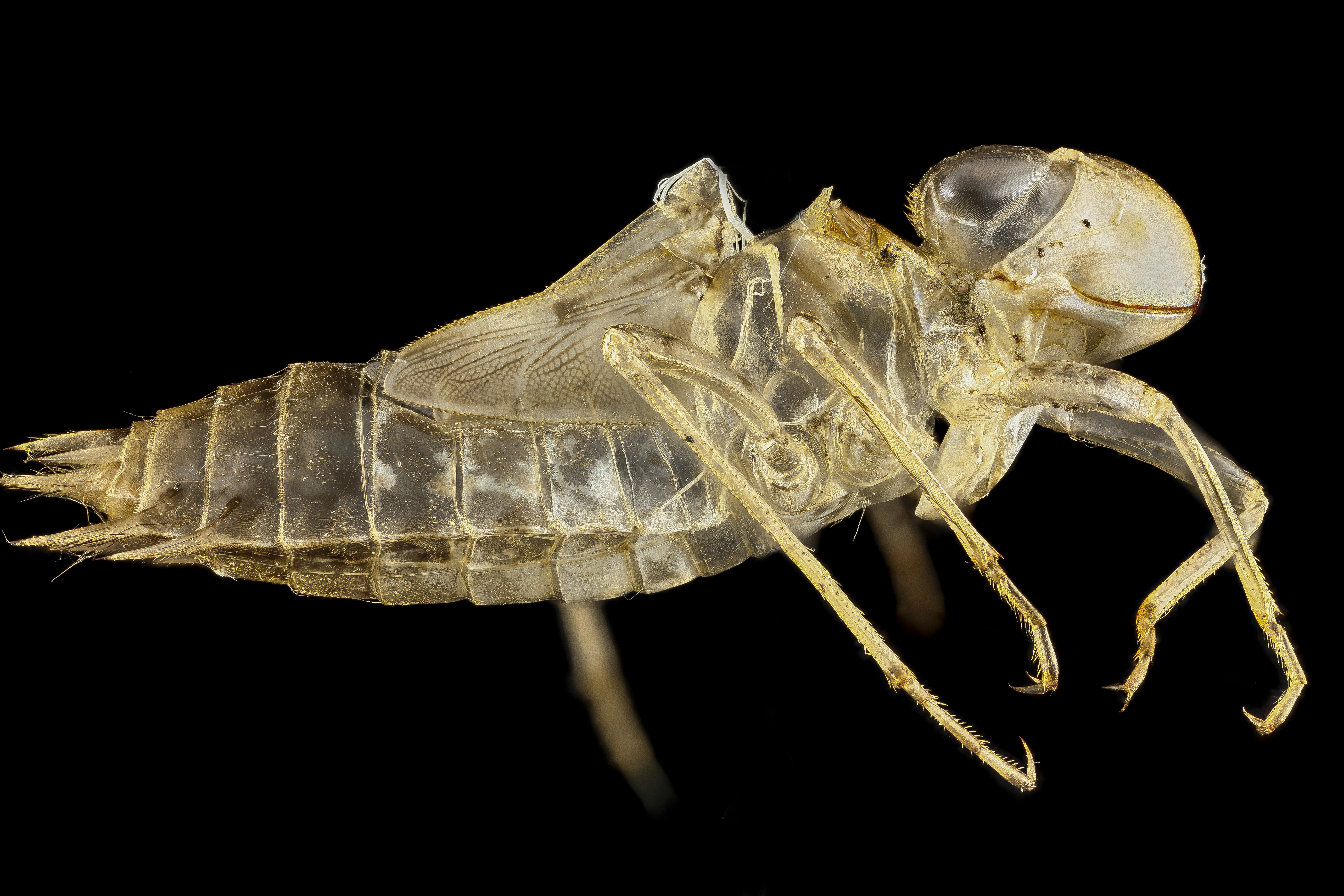 Maryland, Harford County, Lake levi, shed skin of dragonfly (Tramea carolina), collected by Richard Orr